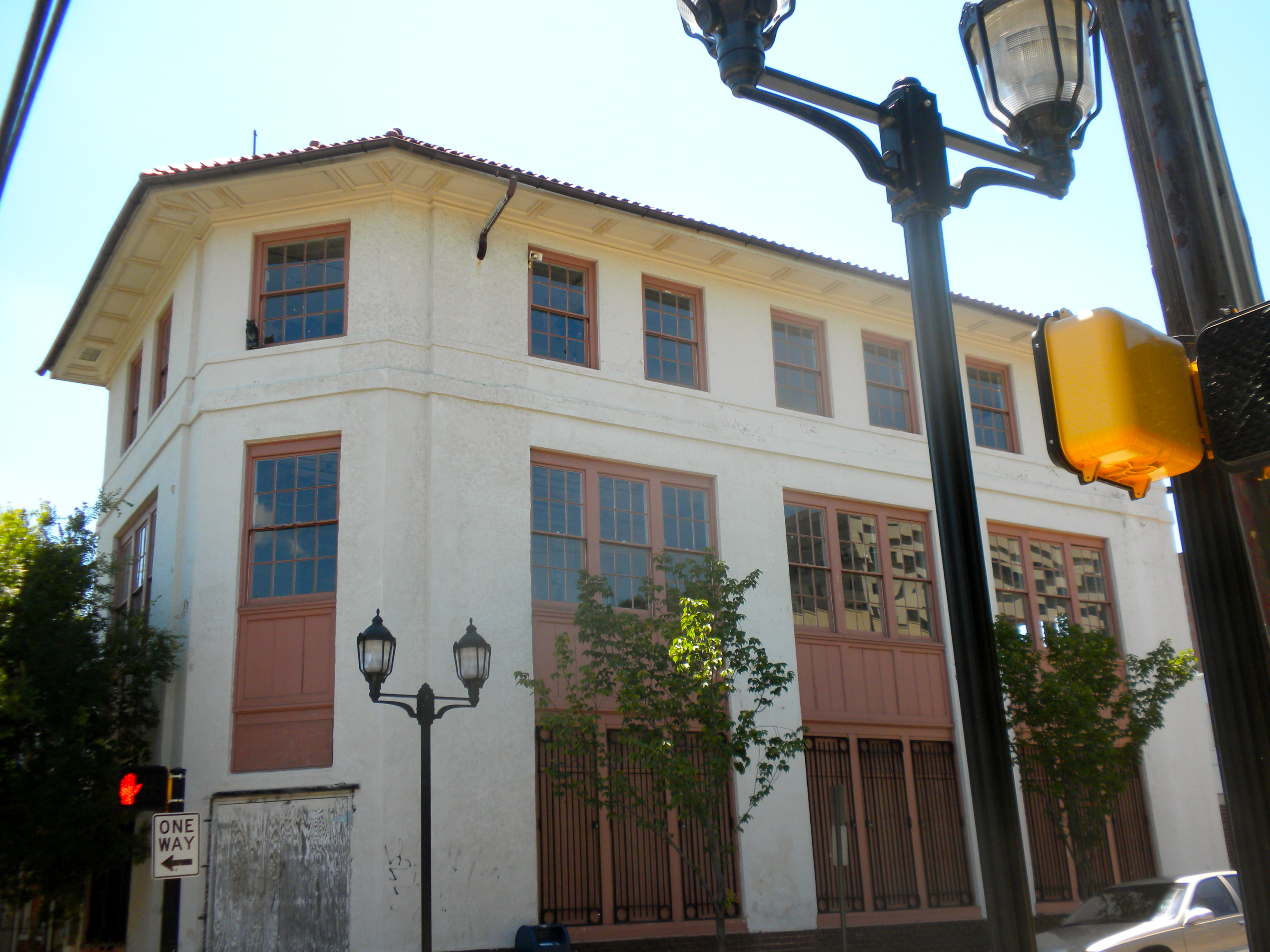 Main Office of the New Castle Leather Company on the NRHP since December 19, 1985. At Eleventh and Poplar (now Clifford Brown Walk) Sts., Wilmington, Delaware, Just south of downtown. Empty building now, but extremely nice